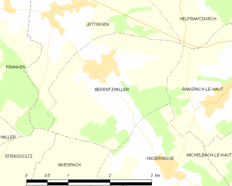 Map of French municipality